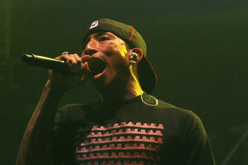 The american rapper Pharrell Williams